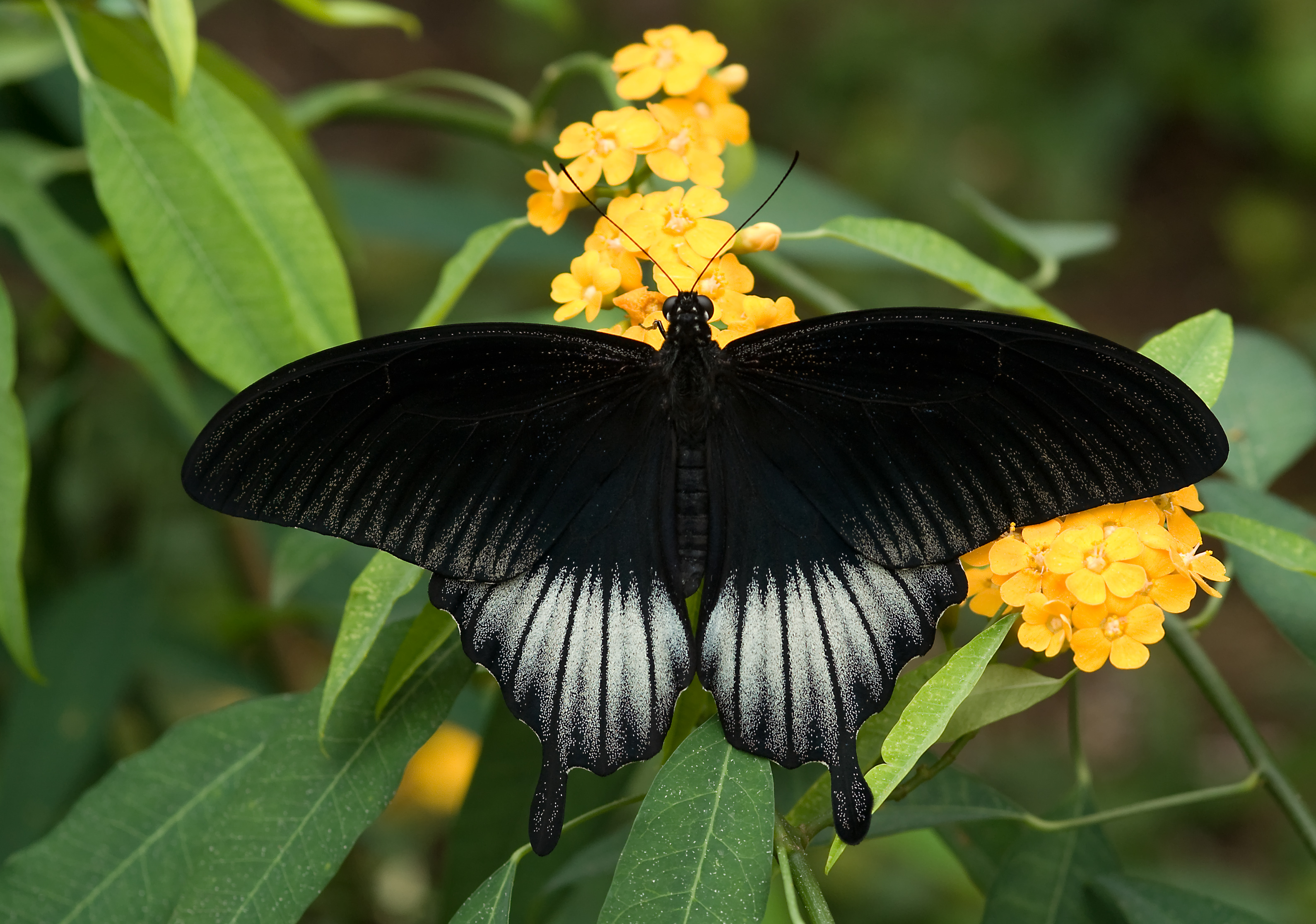 Great Mormon, male (Wilhelma Zoo, Stuttgart, Germany)